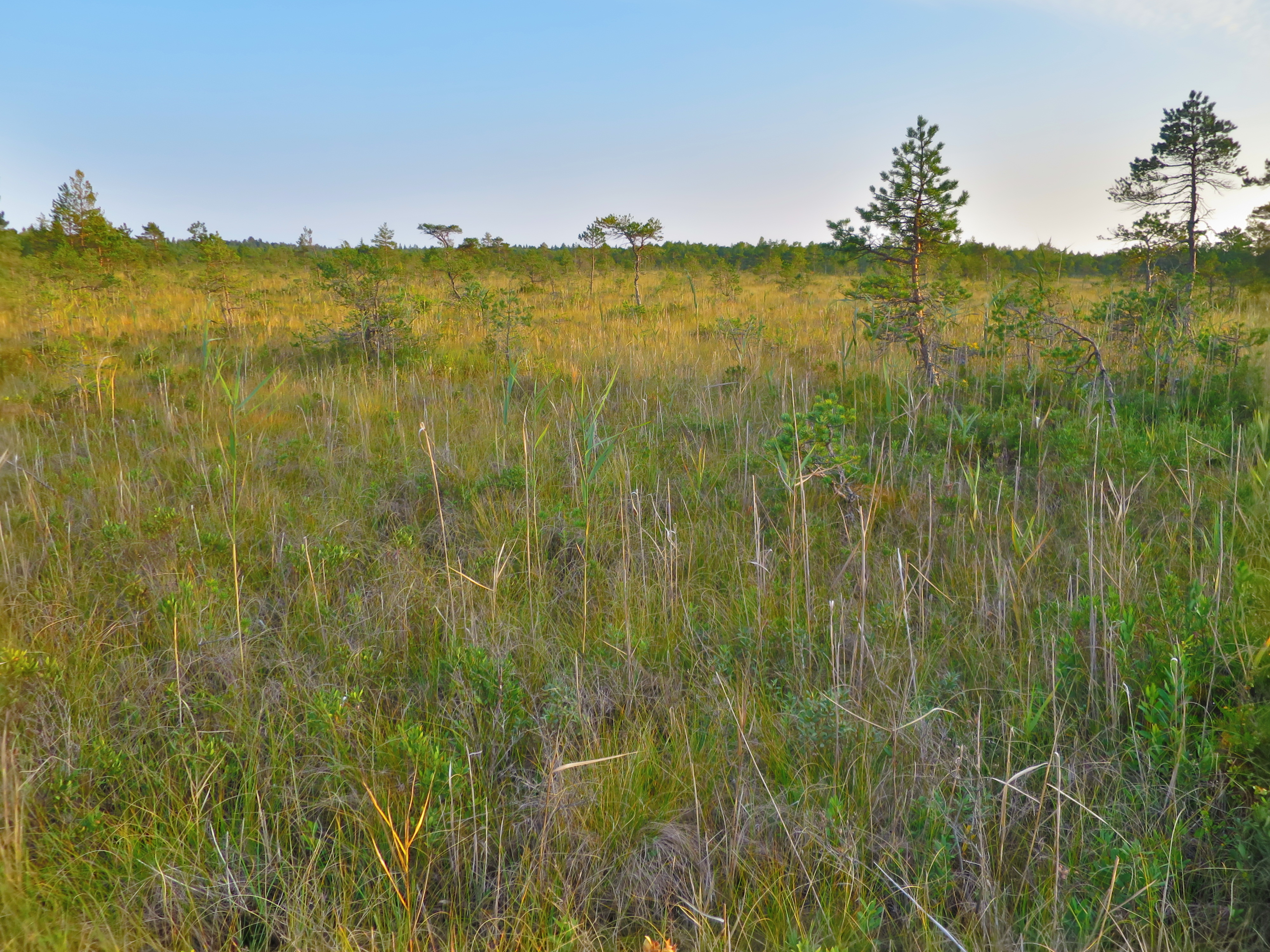 Leidissoo kaguserv Leidissoo looduskaitsealal